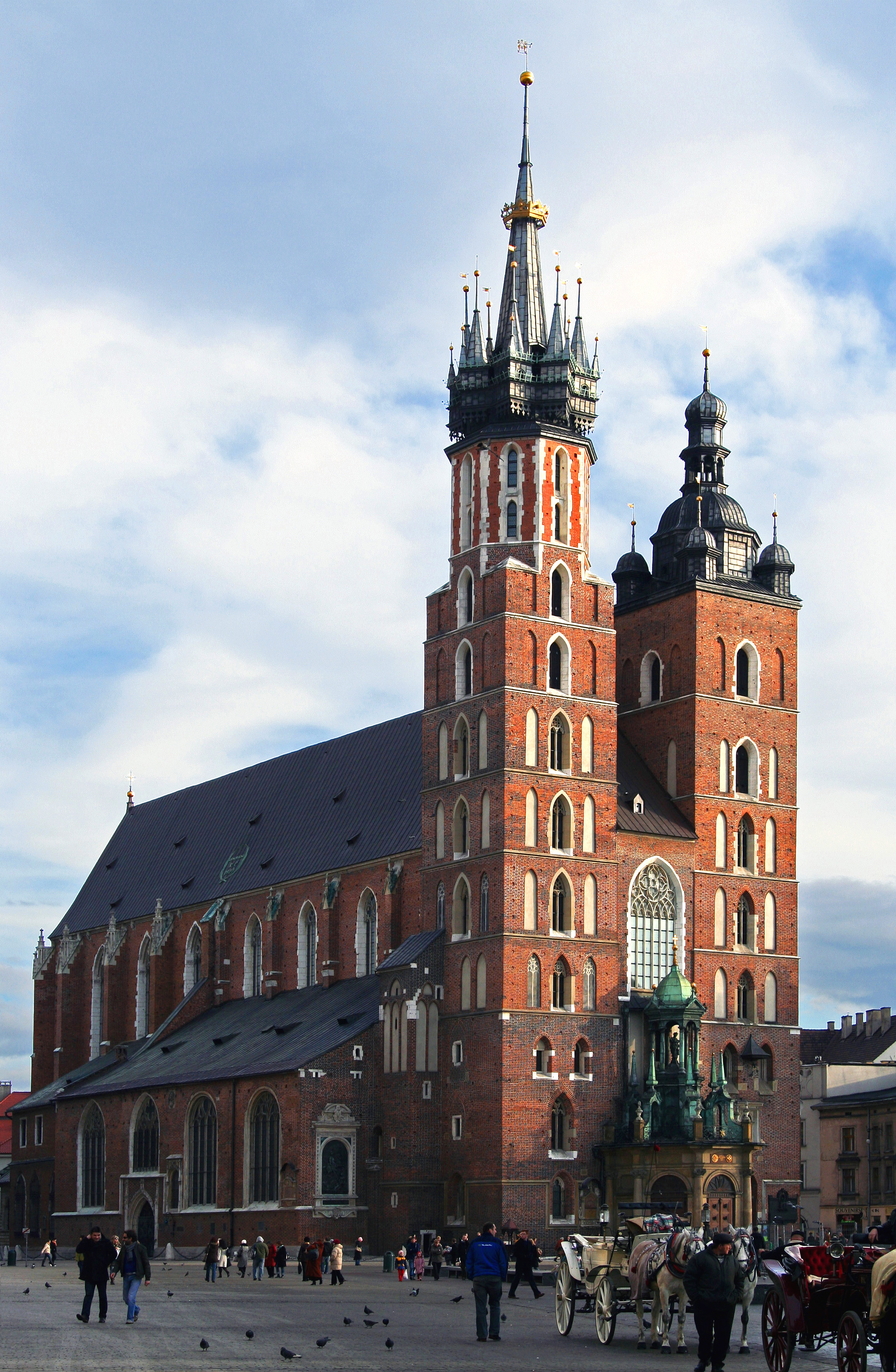 St. Mary's Church in Kraków, Poland. View from the Main Market Square.